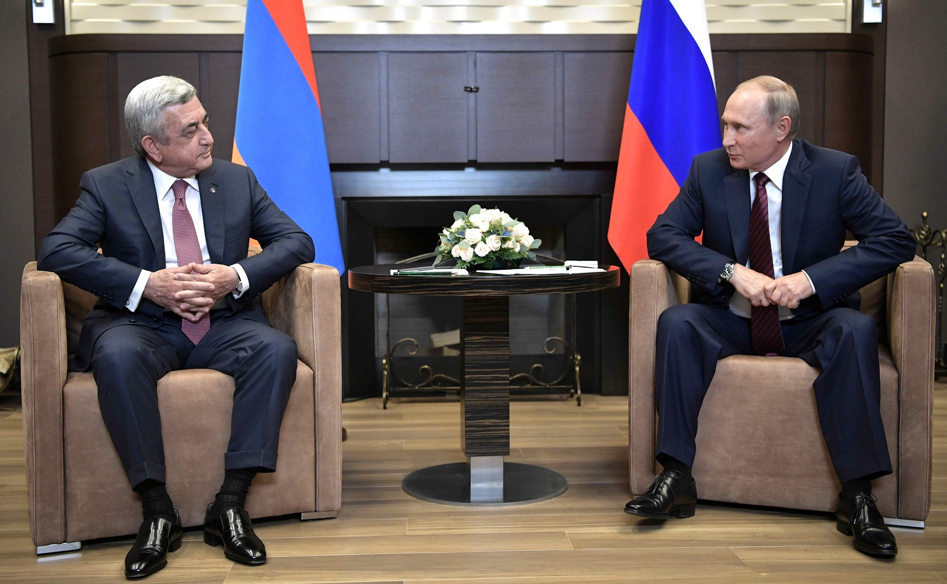 Vladimir Putin met with President of Armenia Serzh Sargsyan in Sochi.